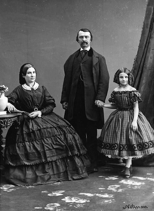 Photograph Hon. L.A. Dessaules and family, Montreal, QC, 1862, William Notman (1826-1891), Silver salts on glass - Wet collodion process, 12 x 10 cm